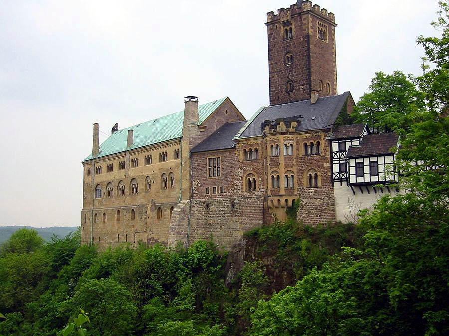 Wartburg in Eisenach